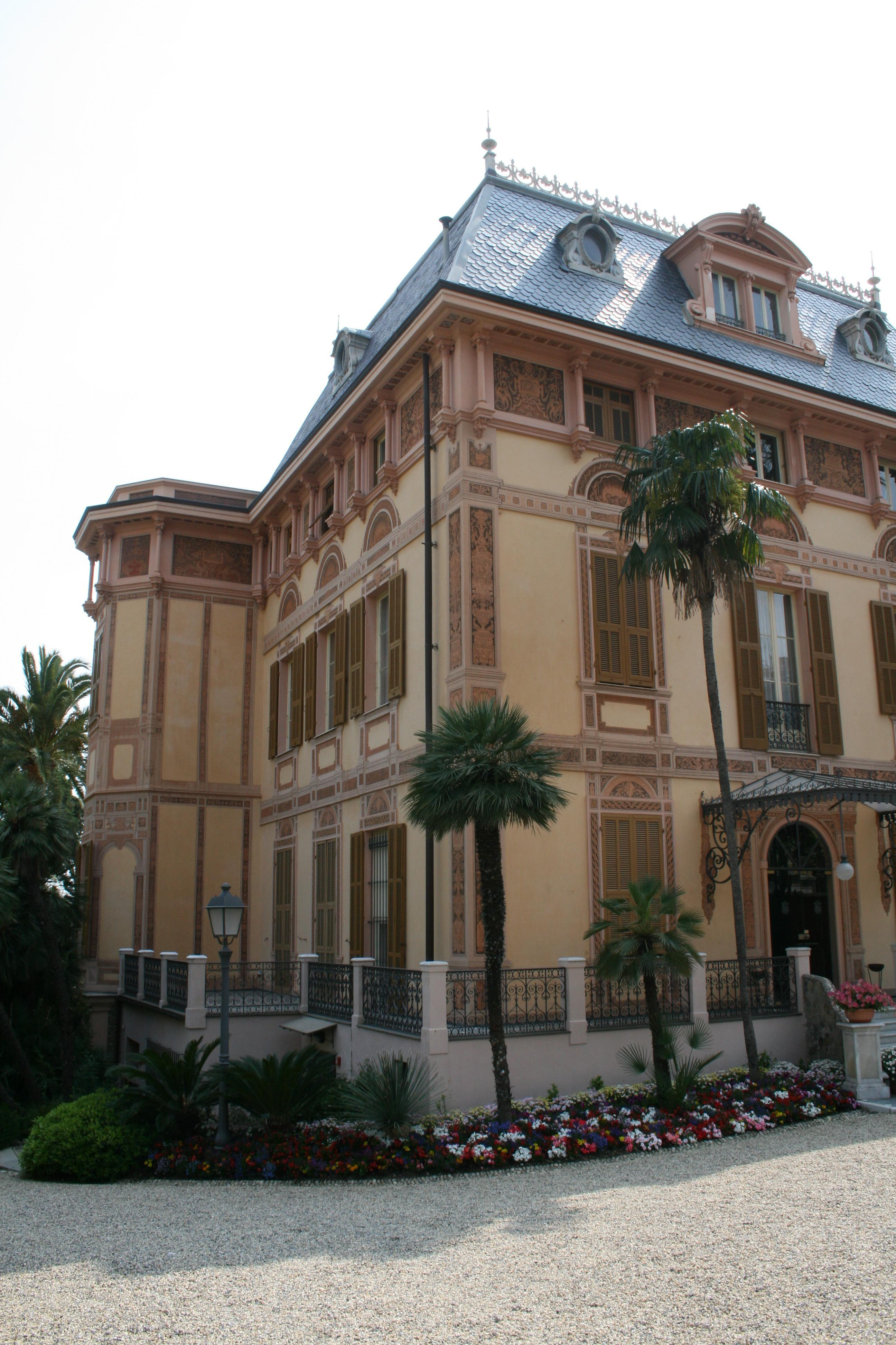 The Villa Nobel in Sanremo, Italy; home of the International Institute of Humanitarian Law (IIHL)